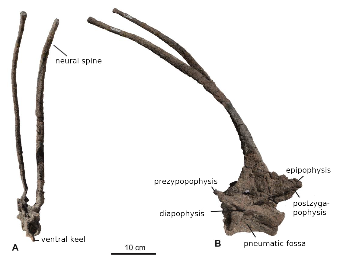 ?Fifth cervical vertebra of Bajadasaurus pronuspinax (MMCh-PV 75). Posterior (A) and lateral (B) views.